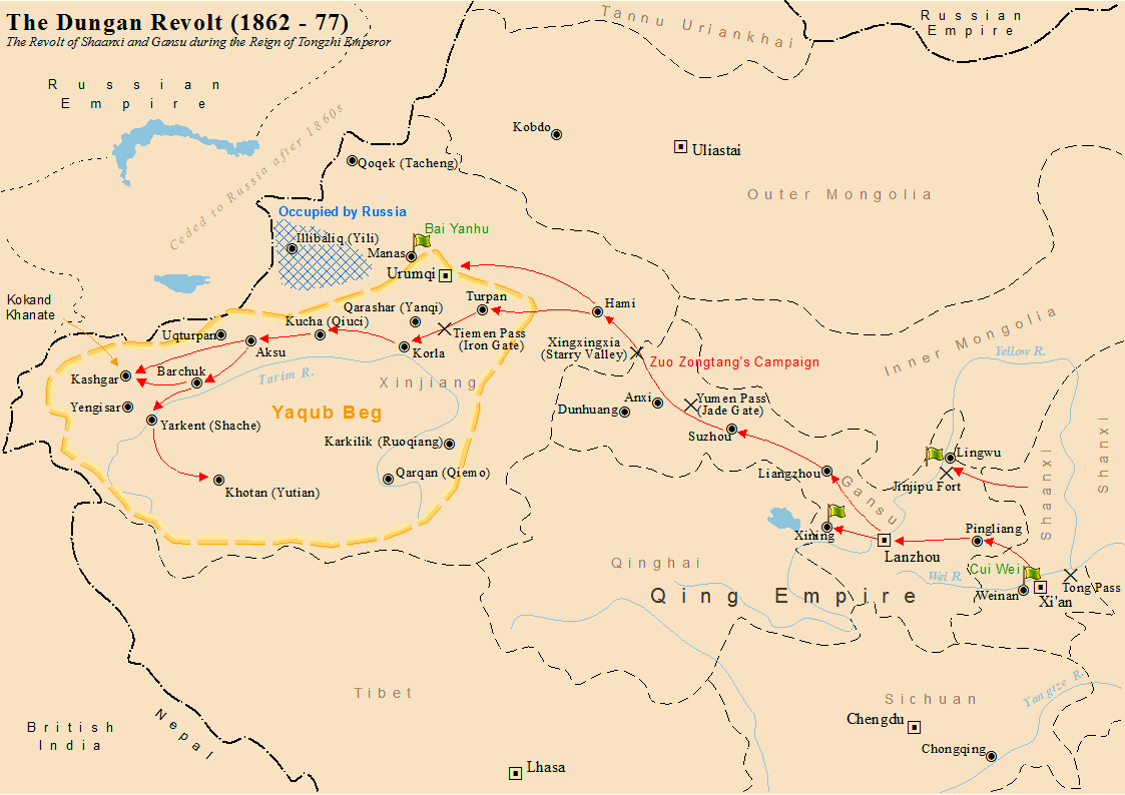 The map showing the Dungan Revolt (1862 - 1877) of Qing dynasty during the reign of Tongzhi Emperor in northwestern China.